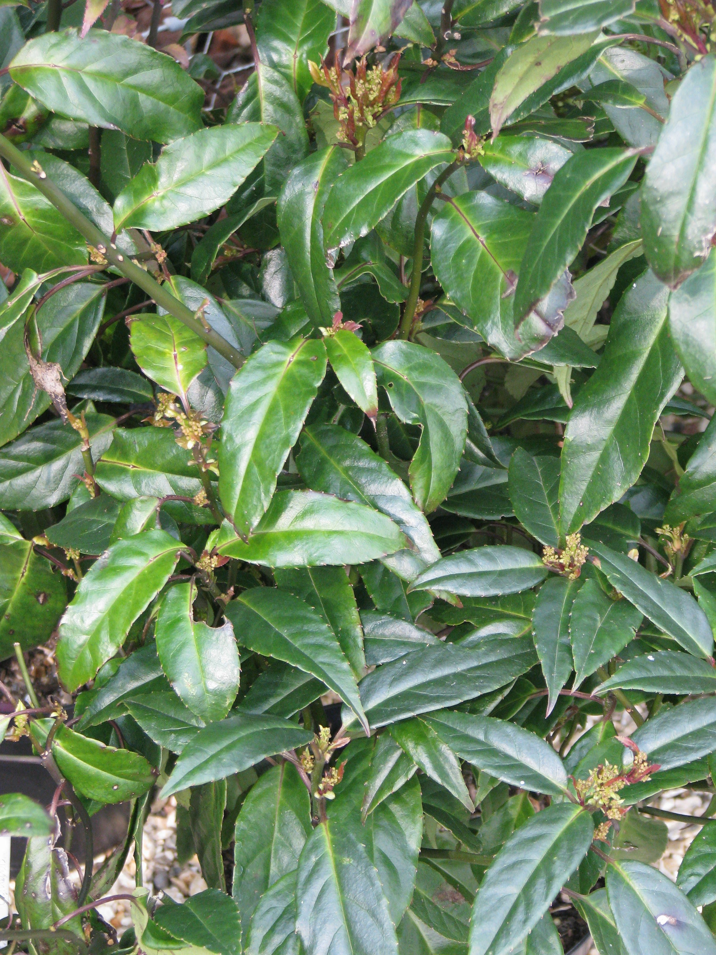 Compare this with the following shot of H.himalaica. The two are similar but distinct